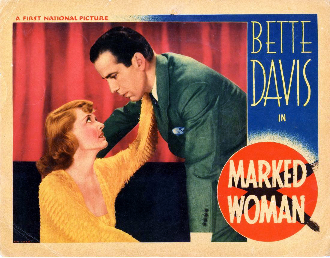 Lobby card from the American film Marked Woman (1937) with Bette Davis and Humphrey Bogart.